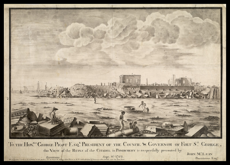 Engraving a year after the destruction of Pondicherry by the British troops.